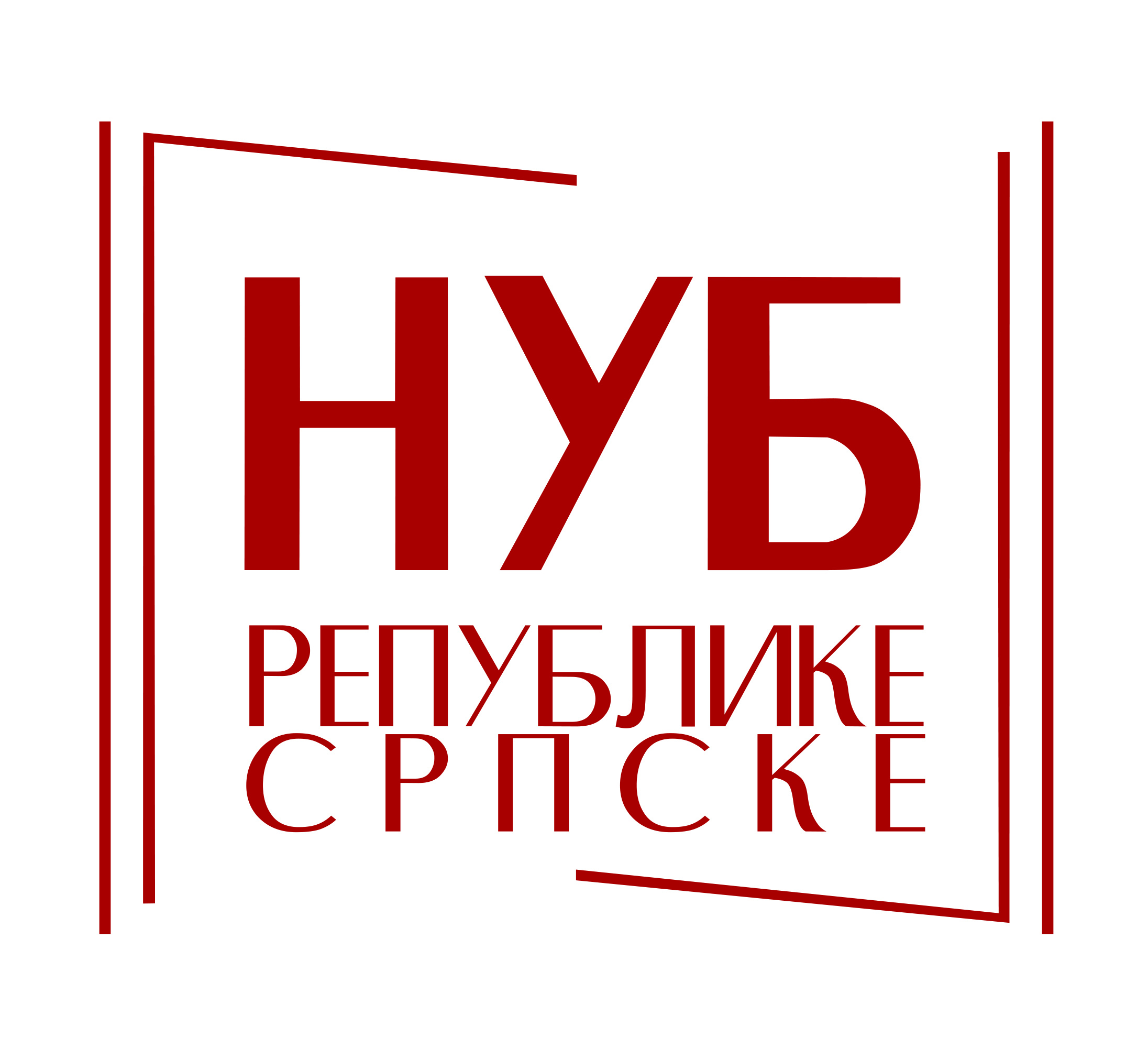 PI National and University Library of the Republika Srpska LOGO